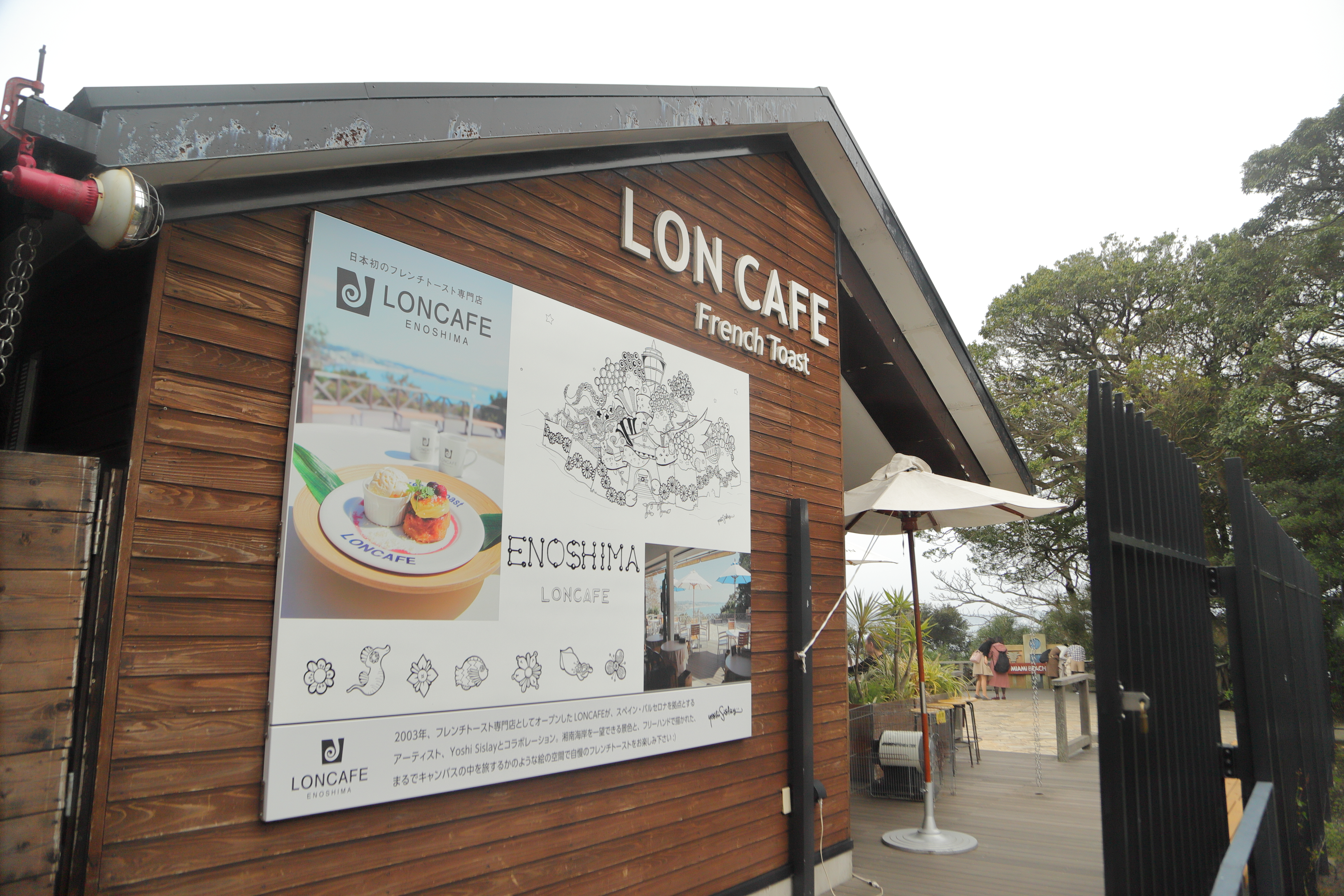 LON CAFE French toast provided at Enoshima main store. Taken on March 22, 2020.